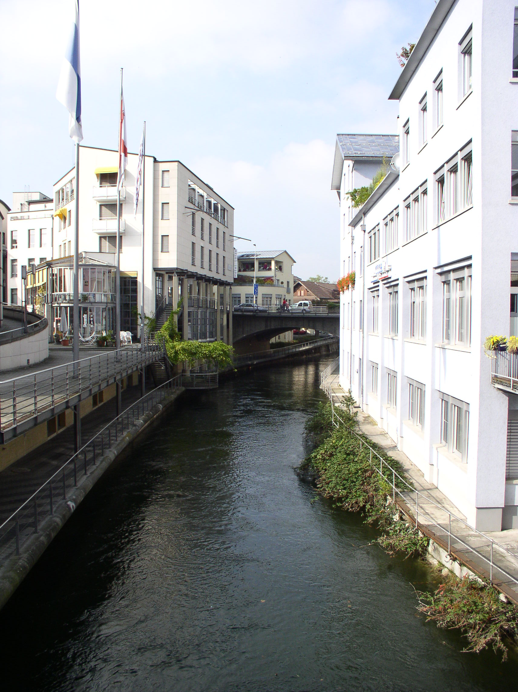 Description: Lorze in Cham Source: photo taken by me, October 2005 Photographer: Baikonur